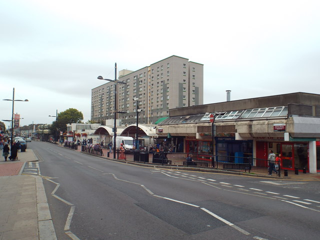 Queen's Market, Upton Park